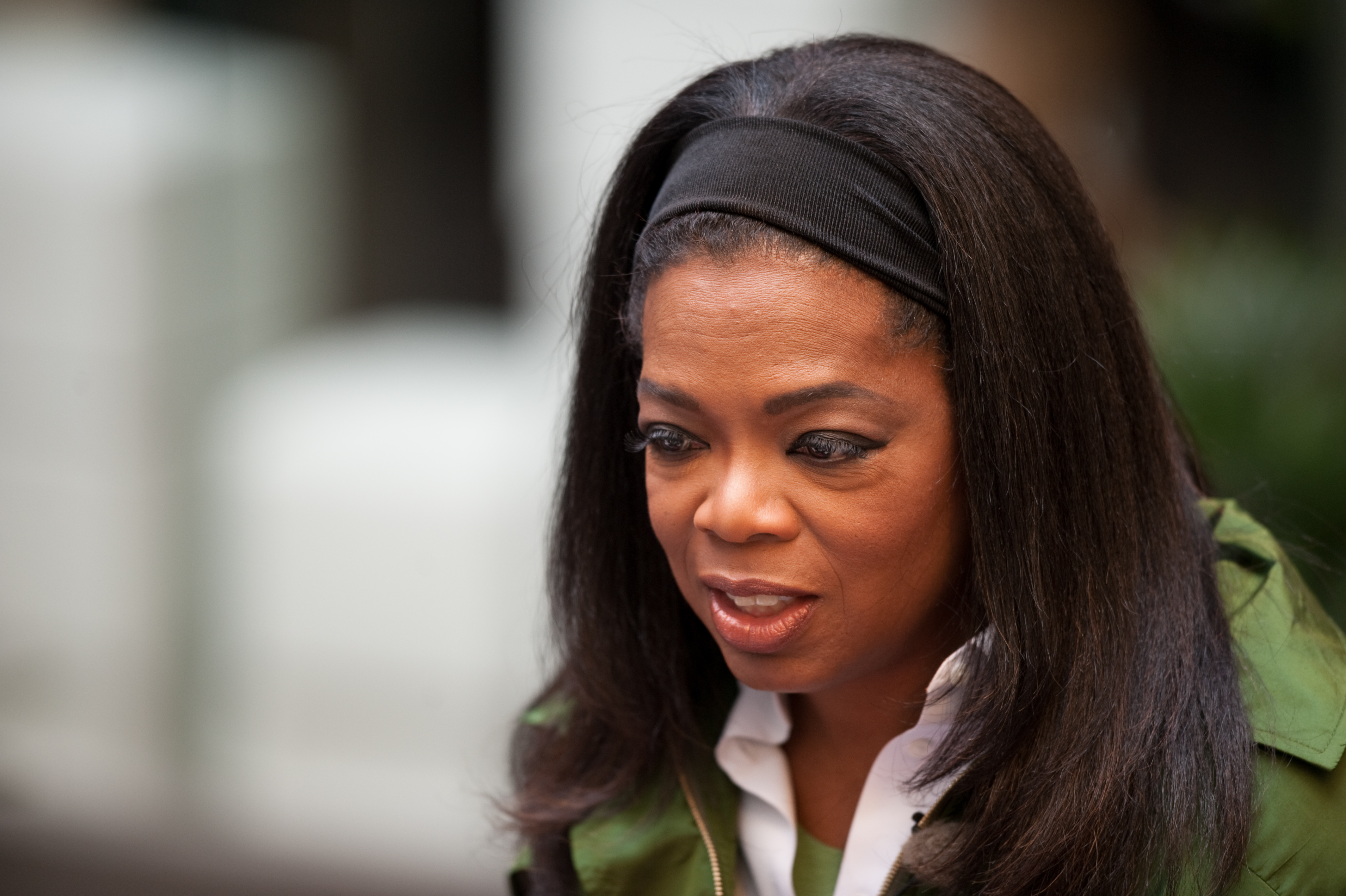 Oprah Winfrey in Denmark on 30 September 2009 to promote Chicago as Olympic host